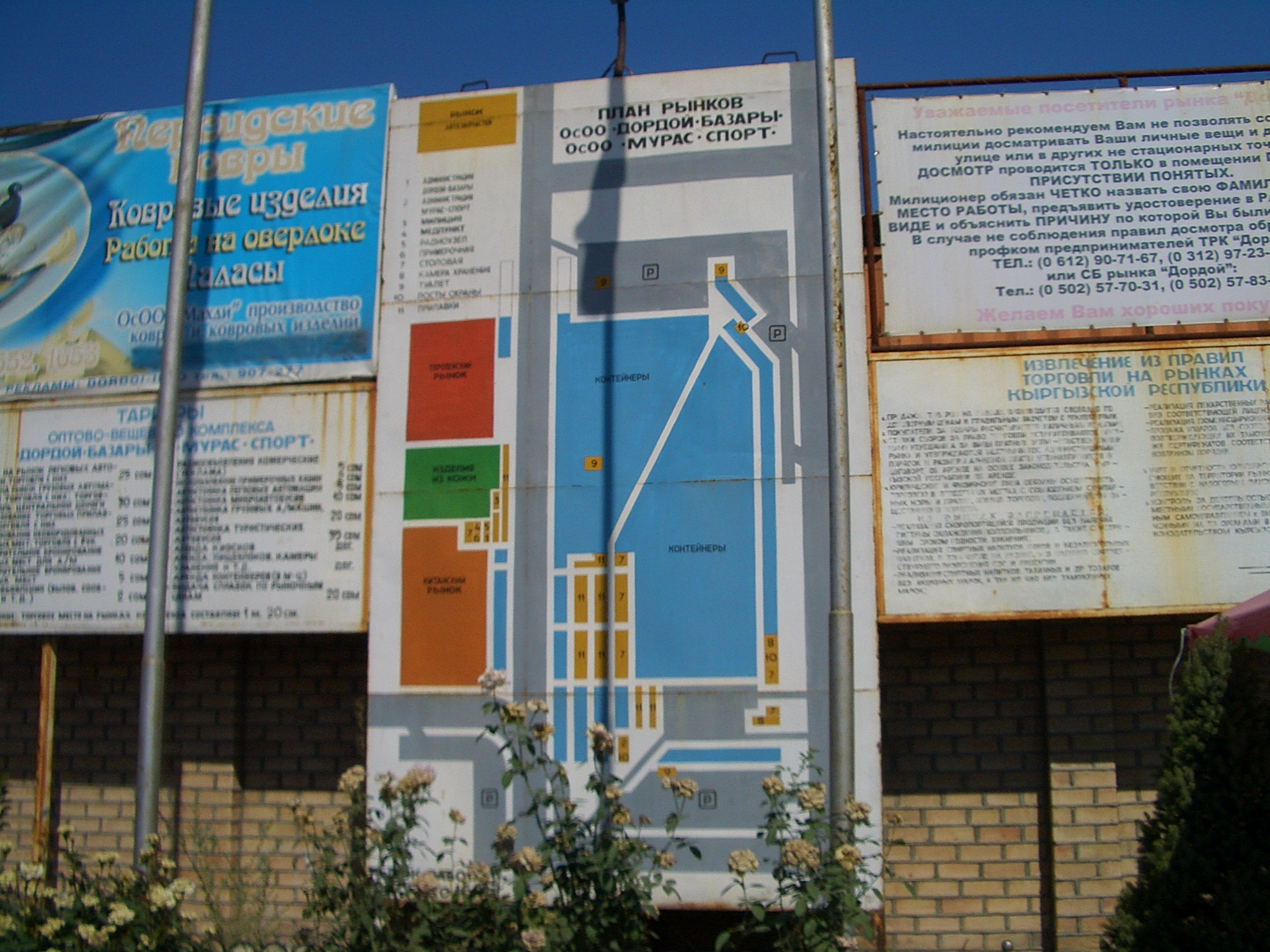 An announcemnet board in Dordoy Bazaar, Bishkek.